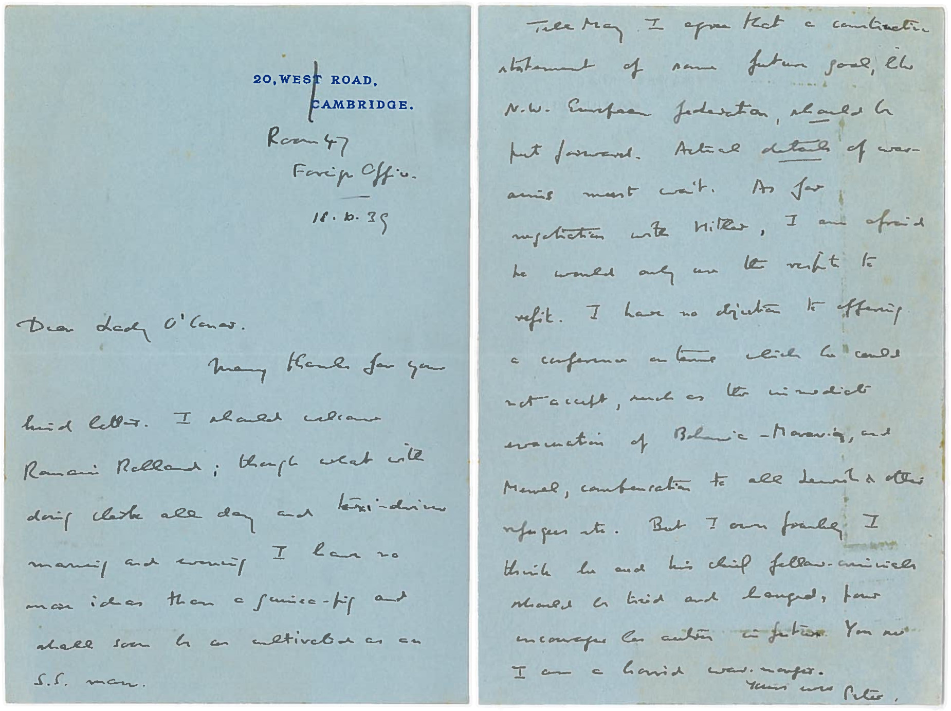 Letter